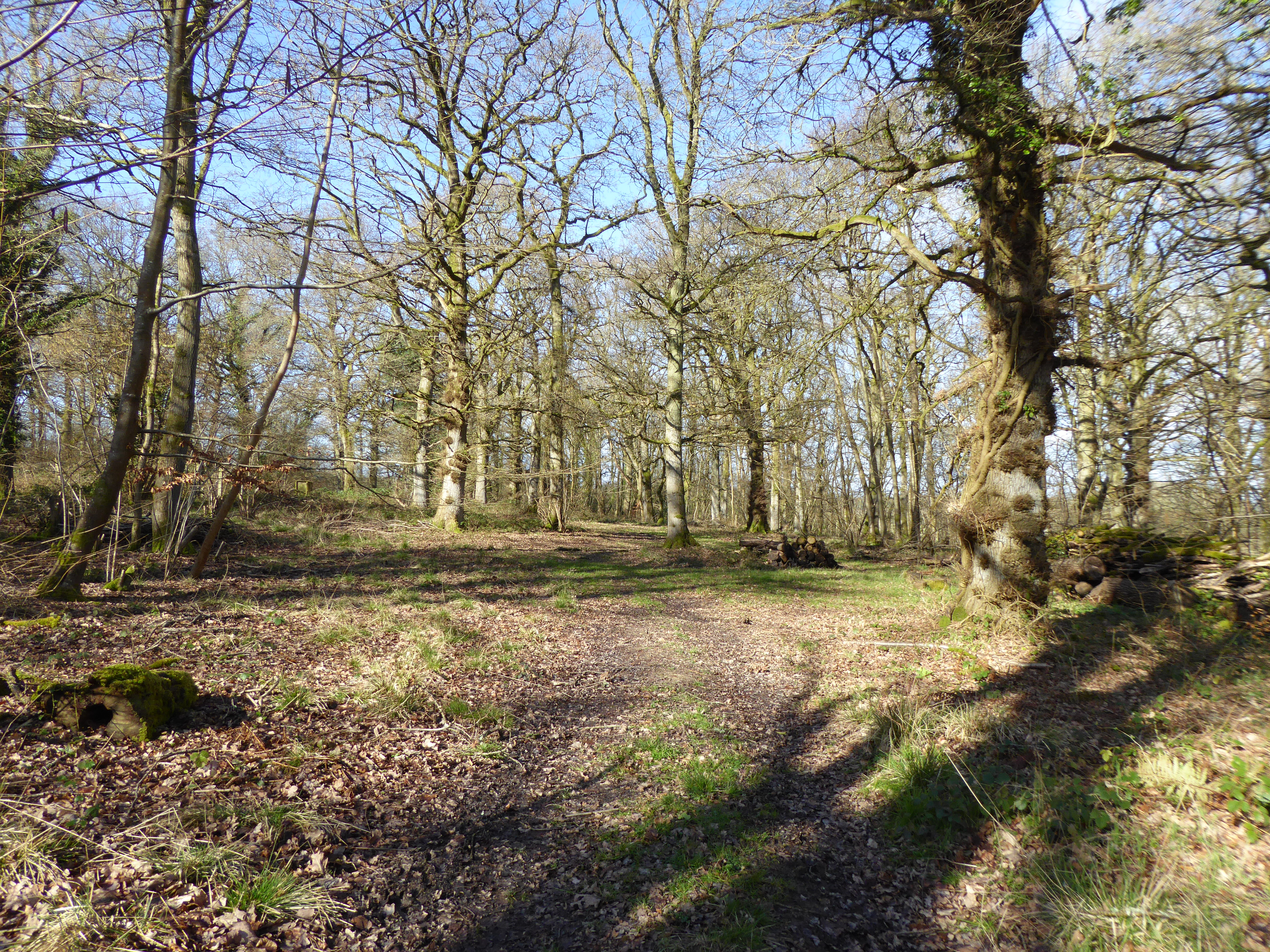 Catmore and Winterly Copses is a Site of Special Scientific Interest west of Newbury in Berkshire